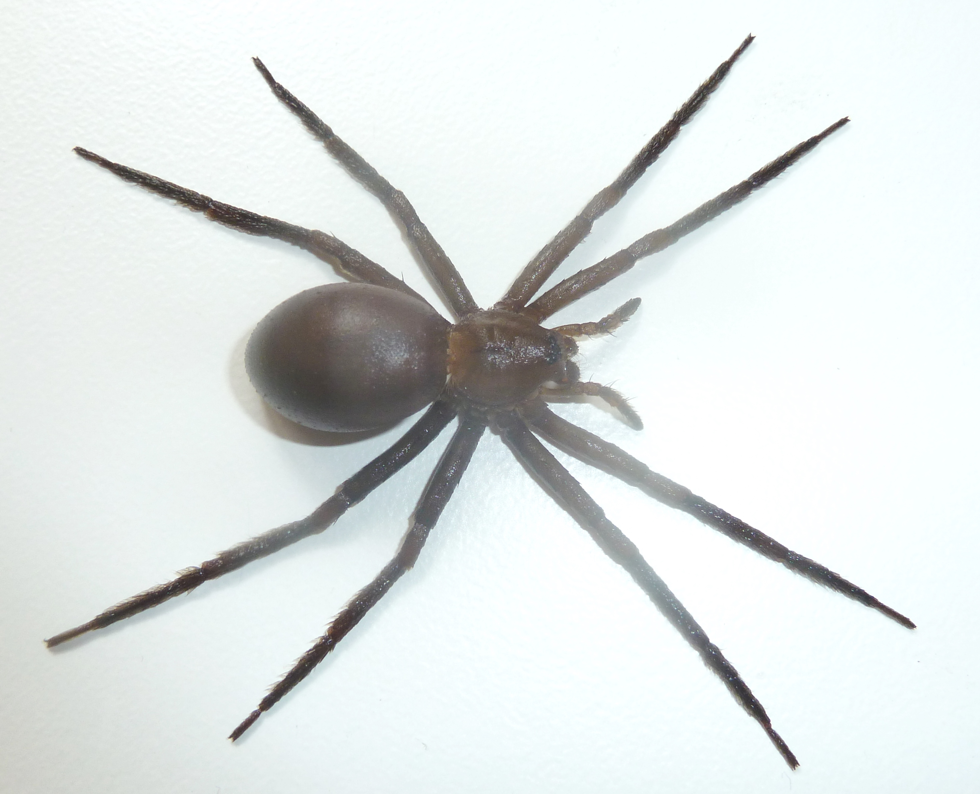 A female Fish-eating spider, Nilus curtus, collected in bulrush, in Faerie Glen, Pretoria. Structure of the epigynum confirmed identification.